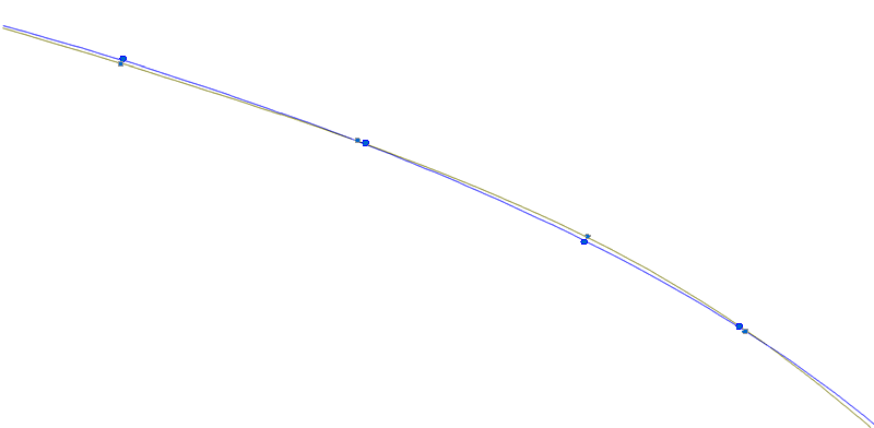 Moon trajectory in proper scale